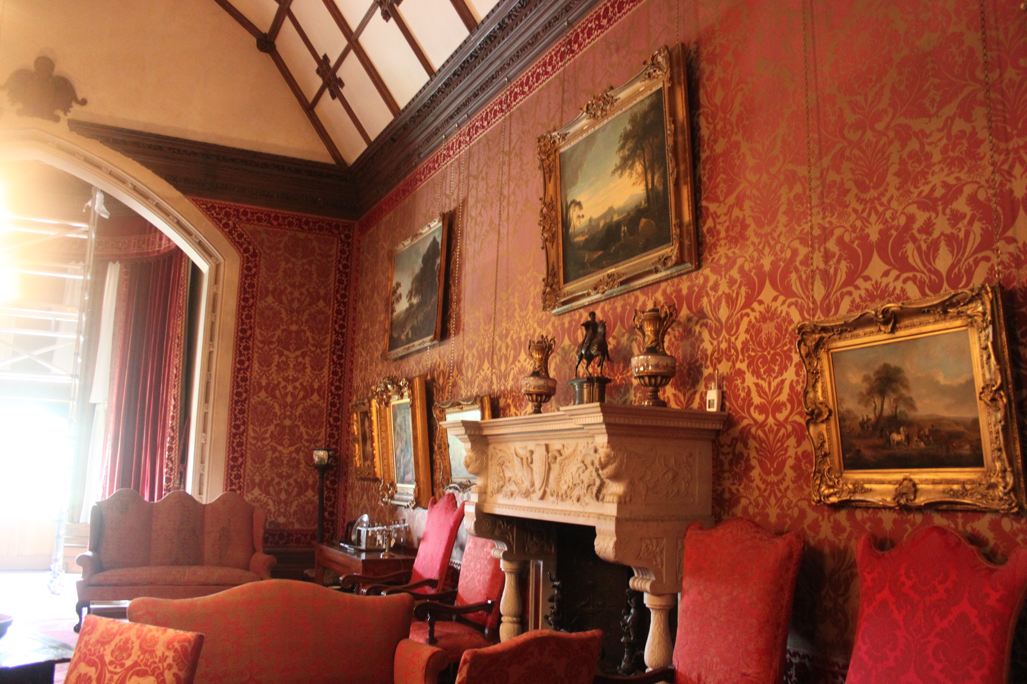 The drawing room at Tynetesfield